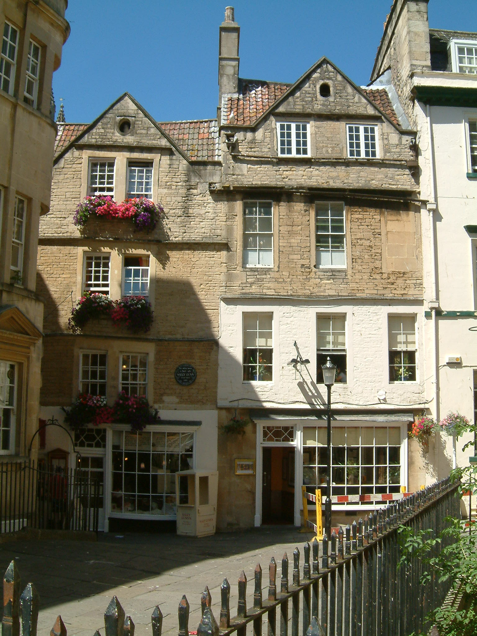 Sally Lunn's House, Bath, England, United-Kingdom